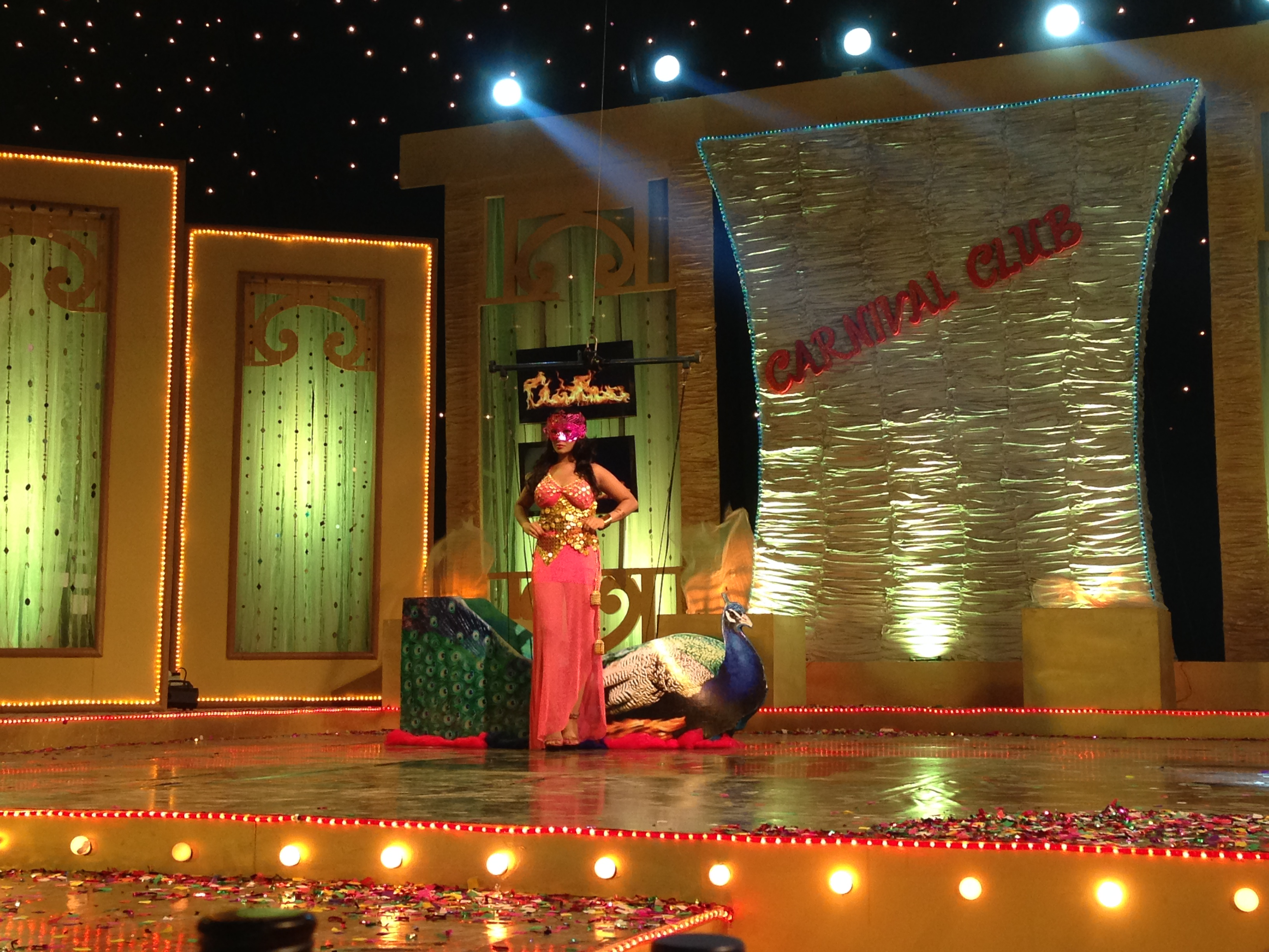 Alisha Pradhan stage performance in FDC film studio of dhaka